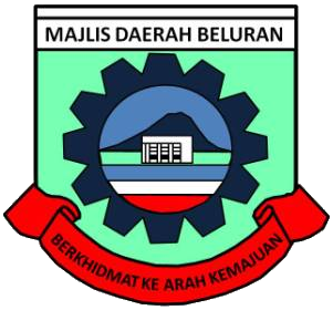 Beluran District Council Emblem.